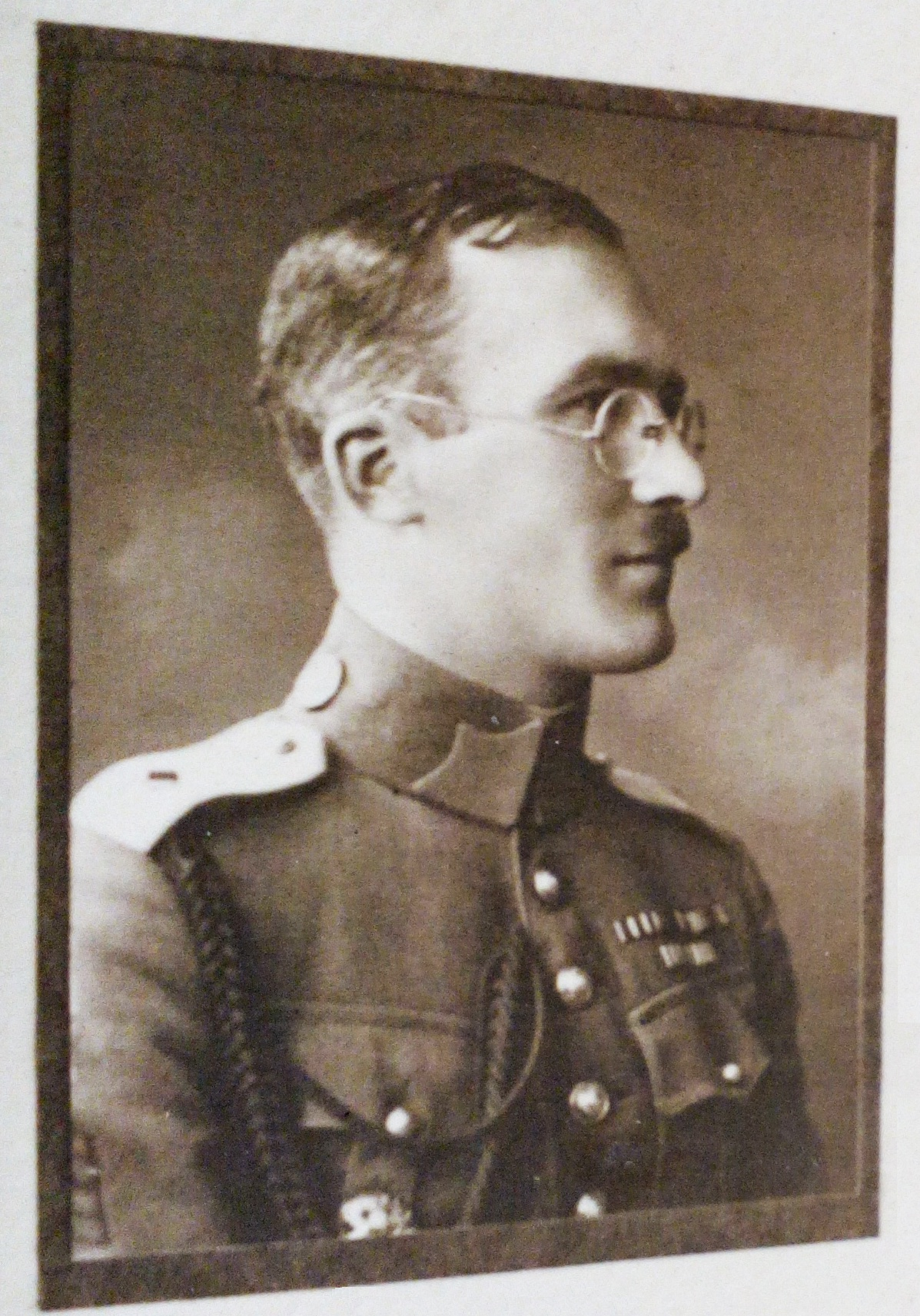 Čeněk Kudláček (* 1896 - 1967) was a Czechoslovak general, legionnaire of First World War, member of anti-fascist resistance and also one of many of anti-Communist resistance fighters. The photo is from tableau dedicated to the 2nd year of graduates students of war school in Prague 1925. Čeněk Kudláček in rank Staff Captain of General Staff.